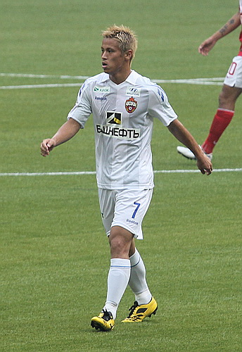 Keisuke Honda